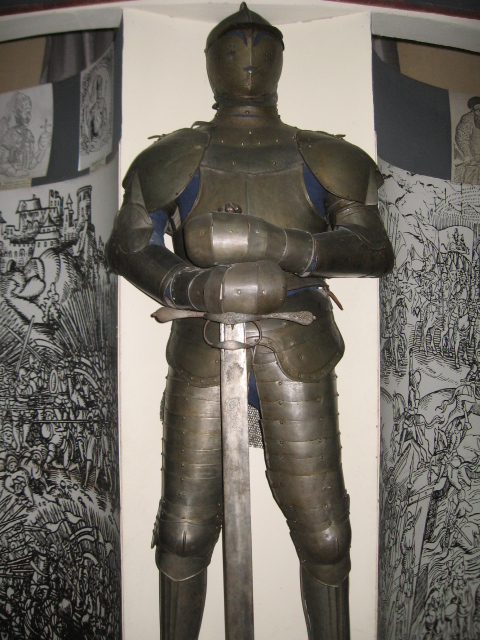 Knight into museum historical RB